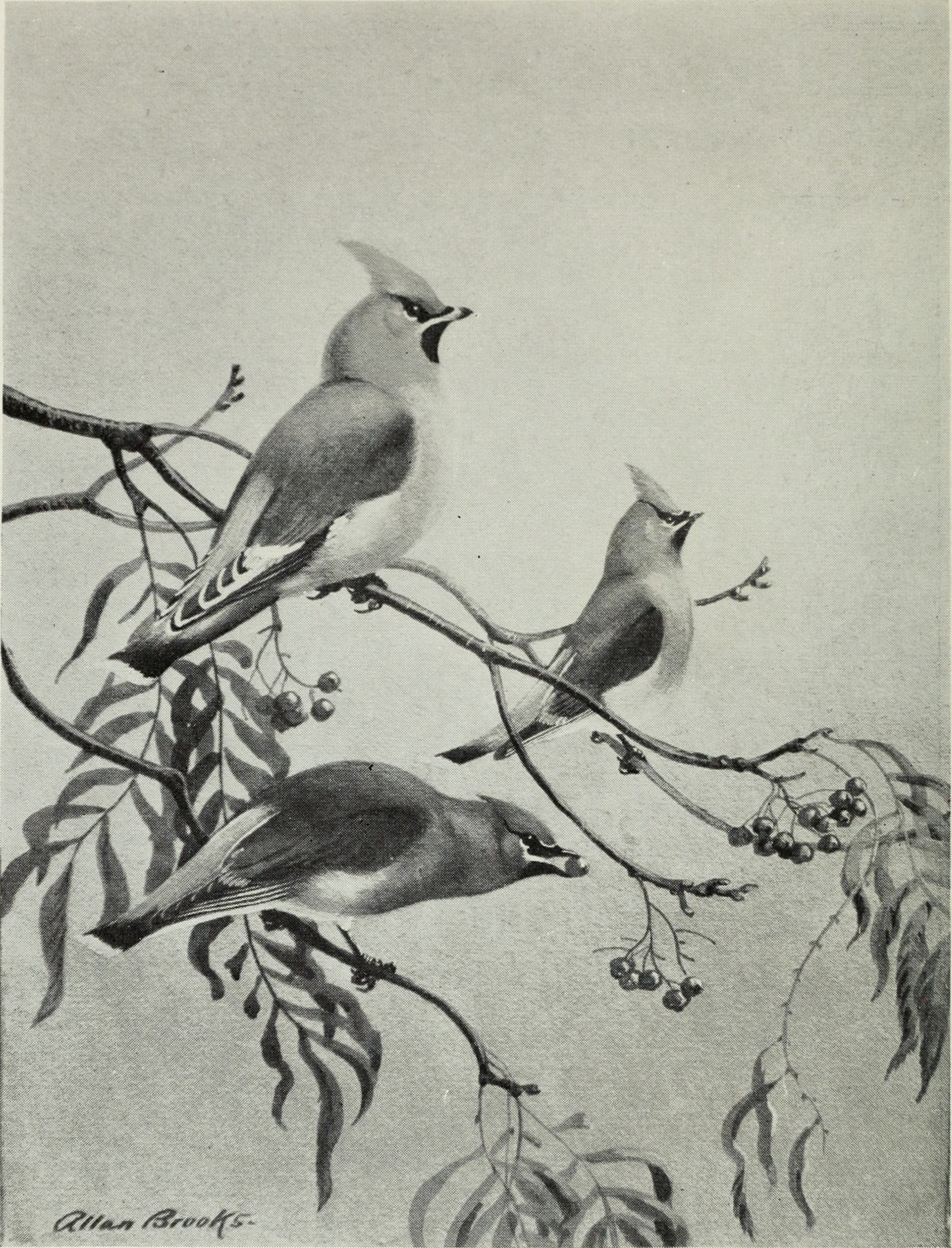 Title: Bulletin Identifier: bulletin00roya Year: 1928 (1920s) Authors: Royal Ontario Museum of Zoology; Royal Ontario Museum of Zoology Subjects: Royal Ontario Museum of Zoology; Zoology; Zoology Publisher: [Toronto] : Royal Ontario Museum of Zoology Text Appearing Before Image: Text Appearing After Image: i^//m^ /^rt^ii^^S BOHEMIAN AND CEDAR WAXWINC.S The original from which this is repro(hiced belongs to the Wallace Havelock Robb collection of paintings of Canadian birds bv Allan Brooks. Coloured reproductions of twenty-four of the paintings of this collection are available for distribution as described on page 12.